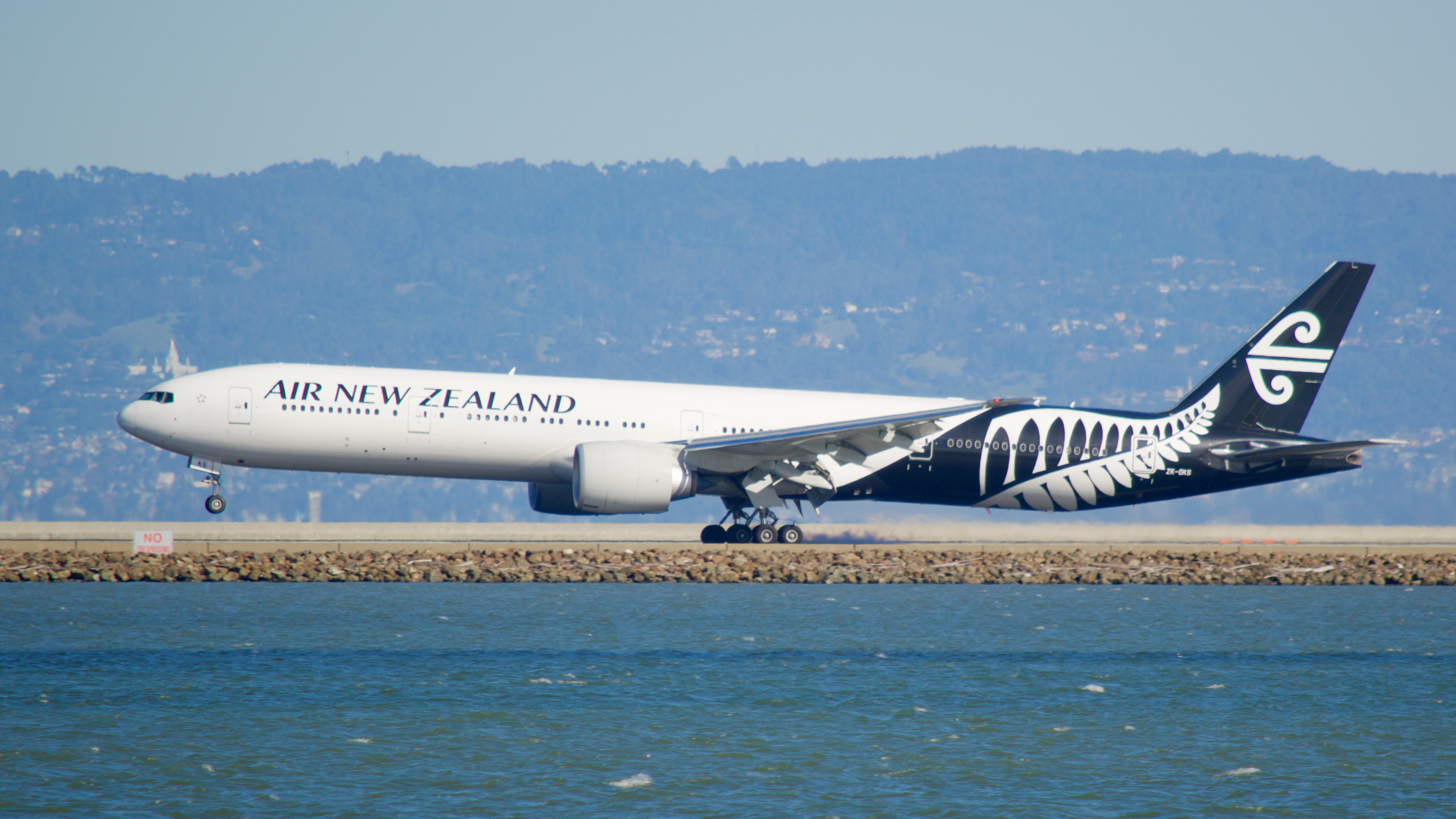 Air New Zealand Boeing 777 -300 super size fern artwork, smokey touchdown DSC_0534